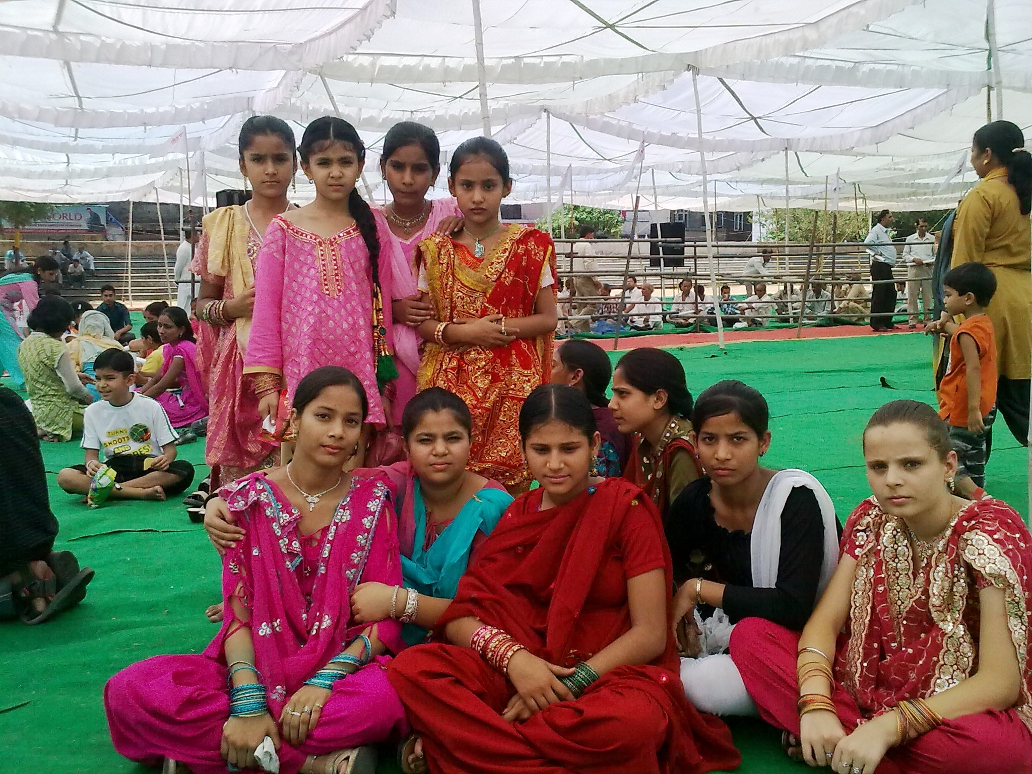 I am the owner of this photo and release under Copyleft: This work of art is free; you can redistribute it and/or modify it according to terms of the Free Art License. You will find a specimen of this license on the Copyleft Attitude site as well as on other sites. . This photo was taken in Jammu, India during a function. This photo will be used for Meghwal article.Bhagat.bb (talk)--B3 01:55, 29 June 2010 (UTC)